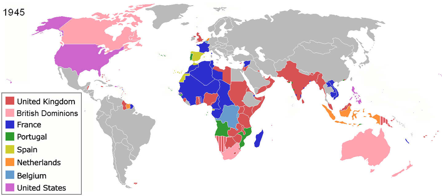 The colors represent the colonies of various nations in 1945, and the colonial borders of that time.